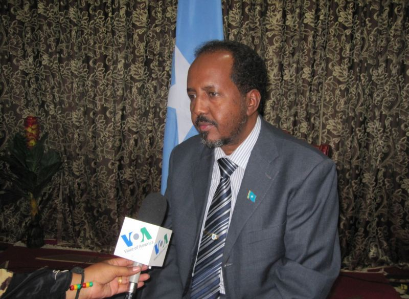 President of Somalia Hassan Sheikh Mohamud talking with the press.